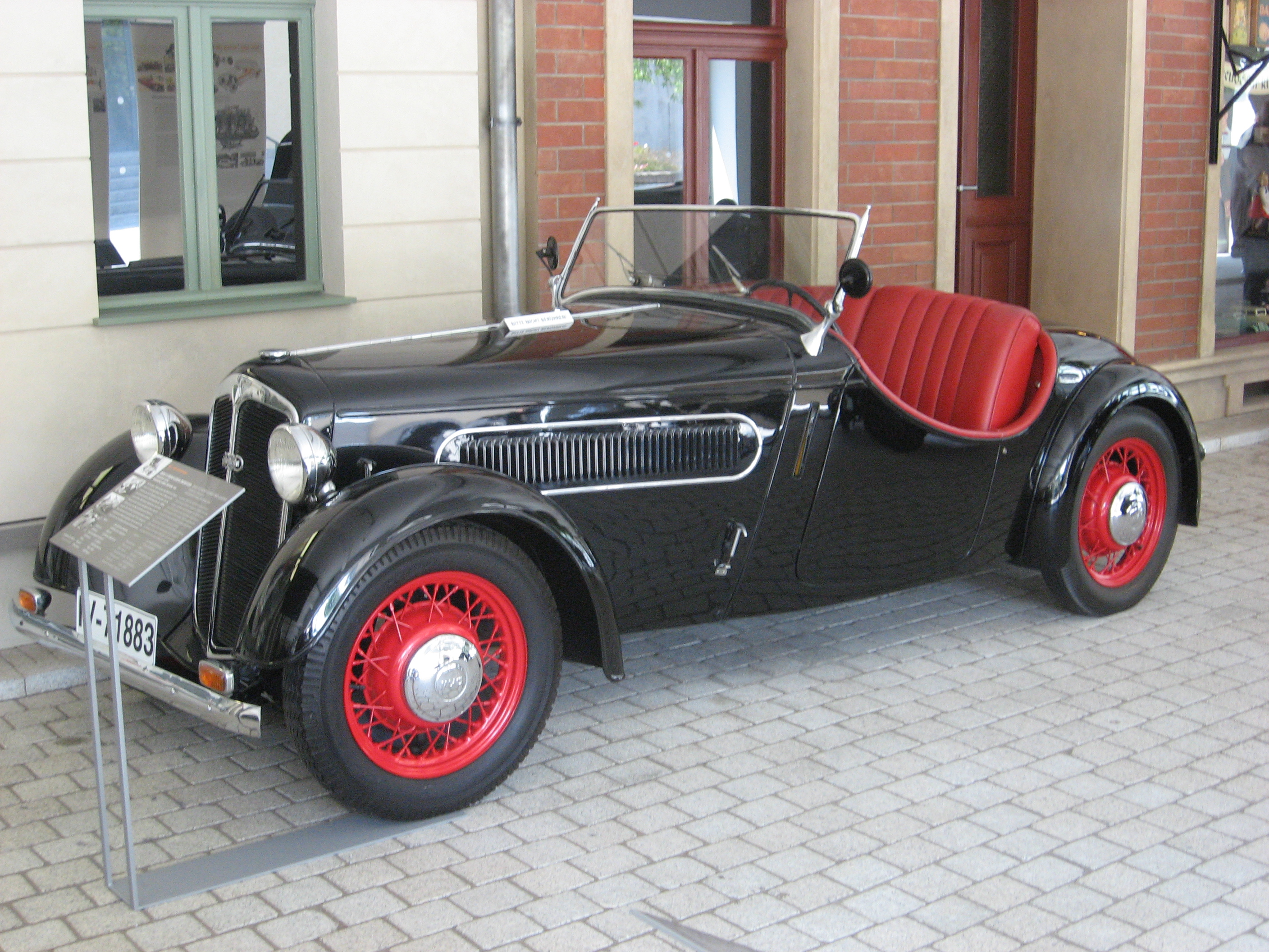 Subject: DKW F5 Luxus-Roadster Author: Luc106 Date:June 12th, 2011 Place/Country: Horch Museum, Zwickau (Deutschland) I release all rights in the public domain. Licensing